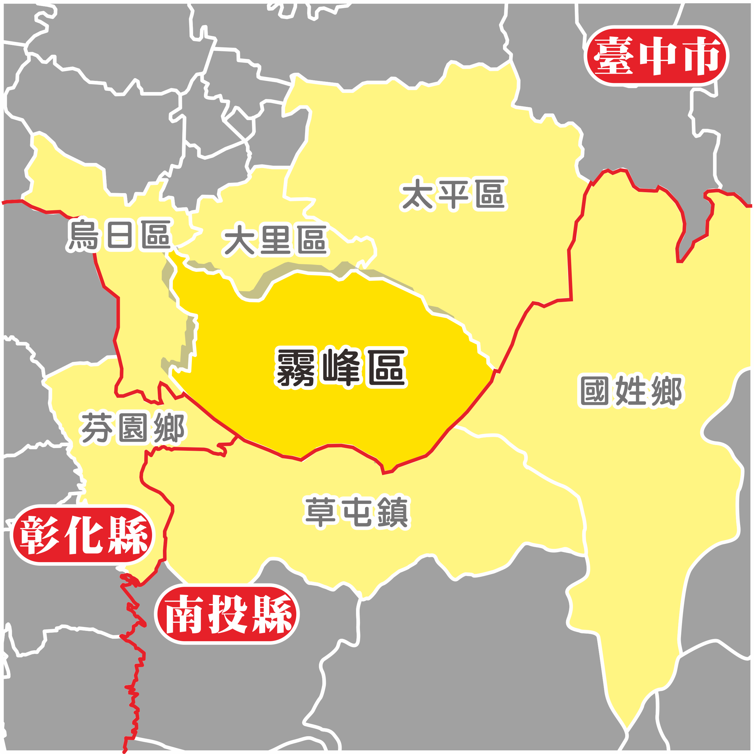 Wufeng District